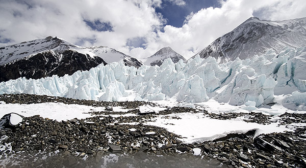 Ice serac taken by an Everest Peace Project member. (Everest: A Climb for Peace)